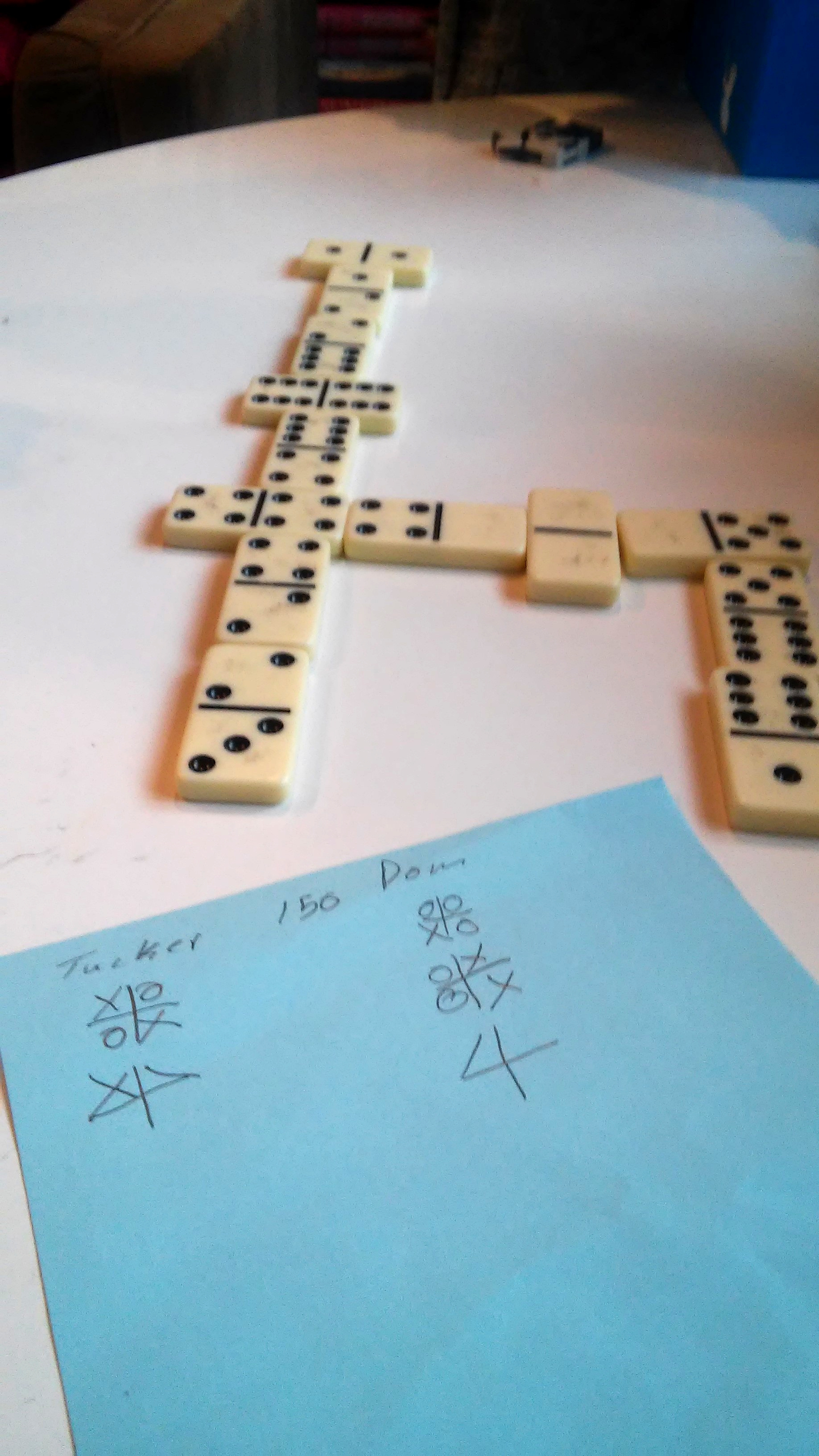 Score being kept by creating houses. The player at left has 75 points and the player at right has 115.